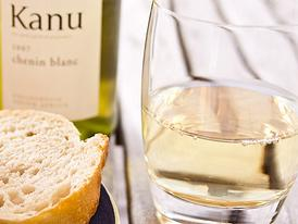 Kanu South African Chenin blanc wine from Stellenbosch and bread